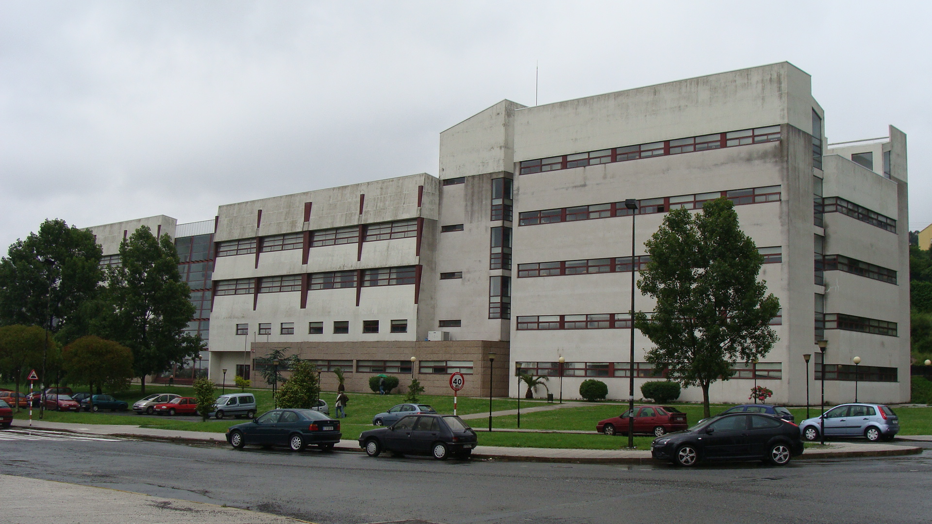 Faculty of Informatics of the University of Corunna, Galicia, Spain